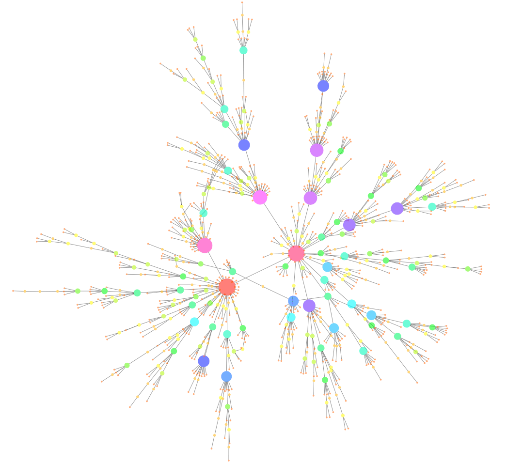 Scale Free network generated by Barabasi-Albert model